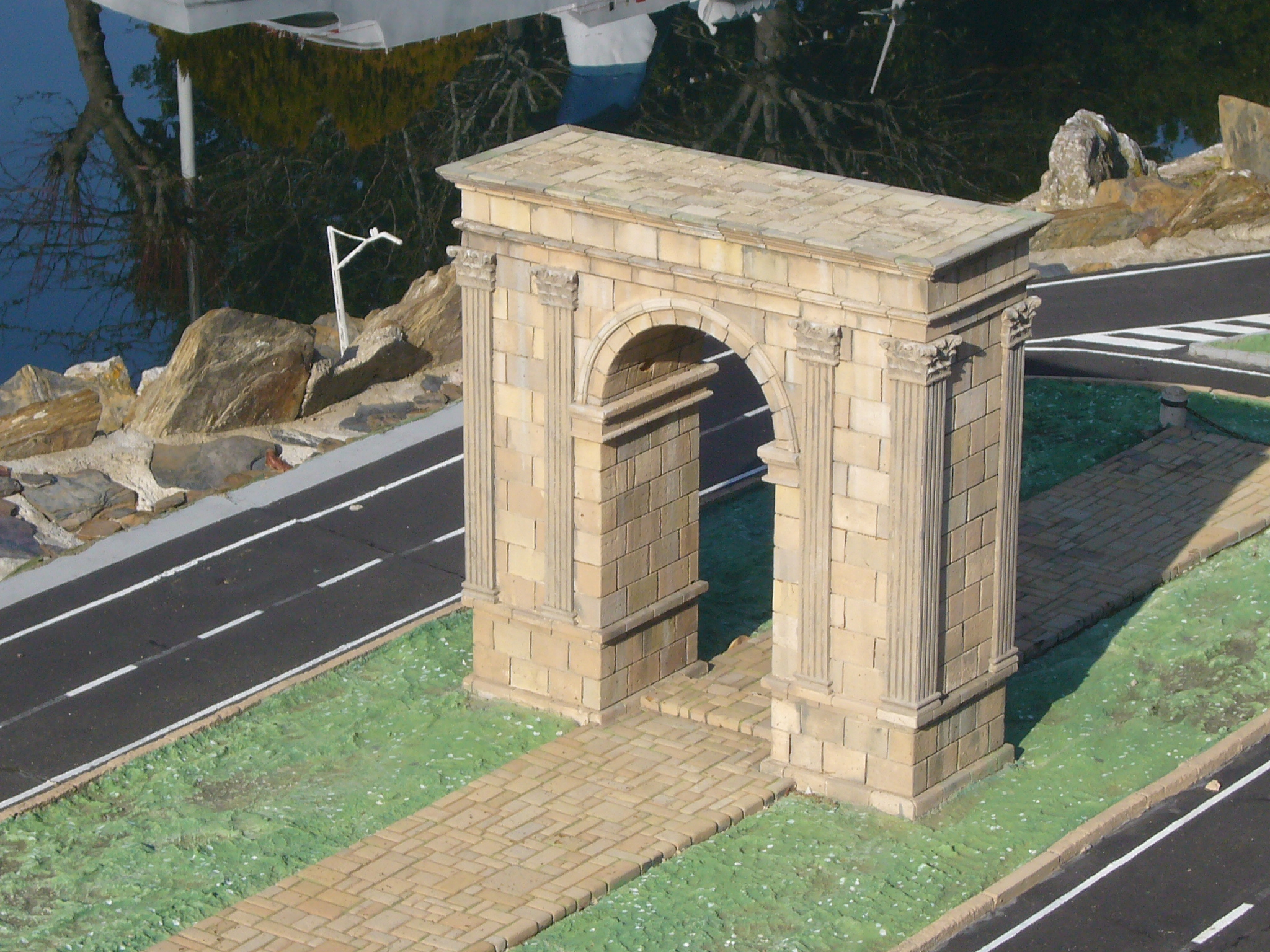 Scale model at the "Catalunya en Miniatura" miniature park : Arc de Berà